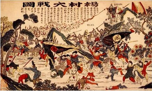 《楊村大戰圗》(《杨村大战图》Picture of the Yancun large-scale war). The Battle of Yangcun during Boxer Rebellion. No copyright law existed in China at that time, image in public domain